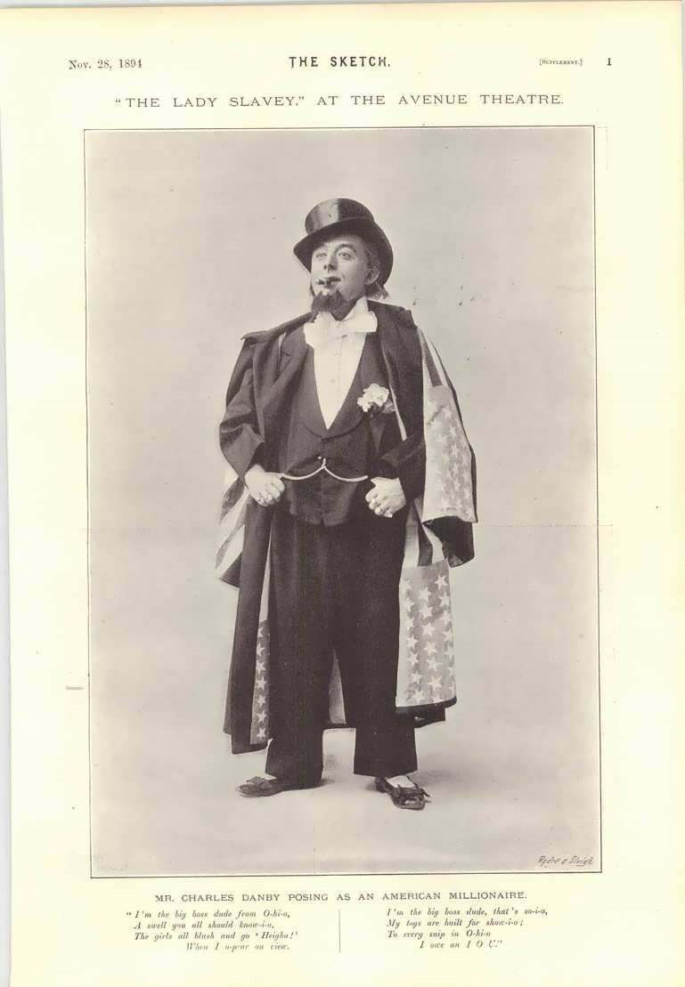 Photograph of Charles Danby in 'The Lady Slavey' scanned from 'The Sketch' 28 November 1894 pg. 1